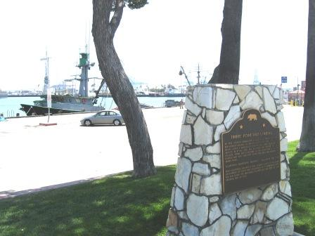 Timm's Landing small grassy landscaped area at Los Angeles harbor, California Historical Landmark plaque in foreground.